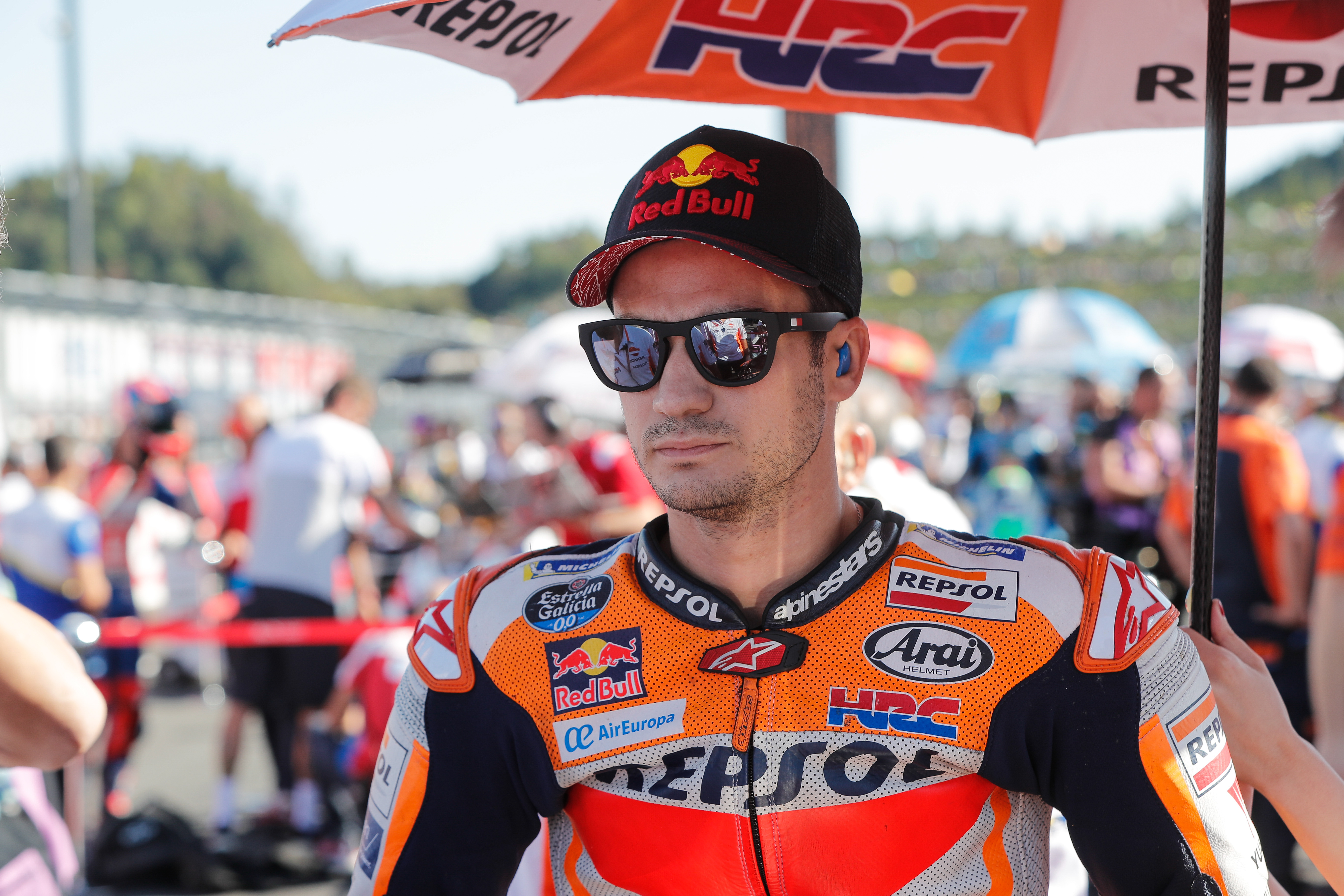 Dani Pedrosa before the start of the 2018 Japanese Grand Prix.